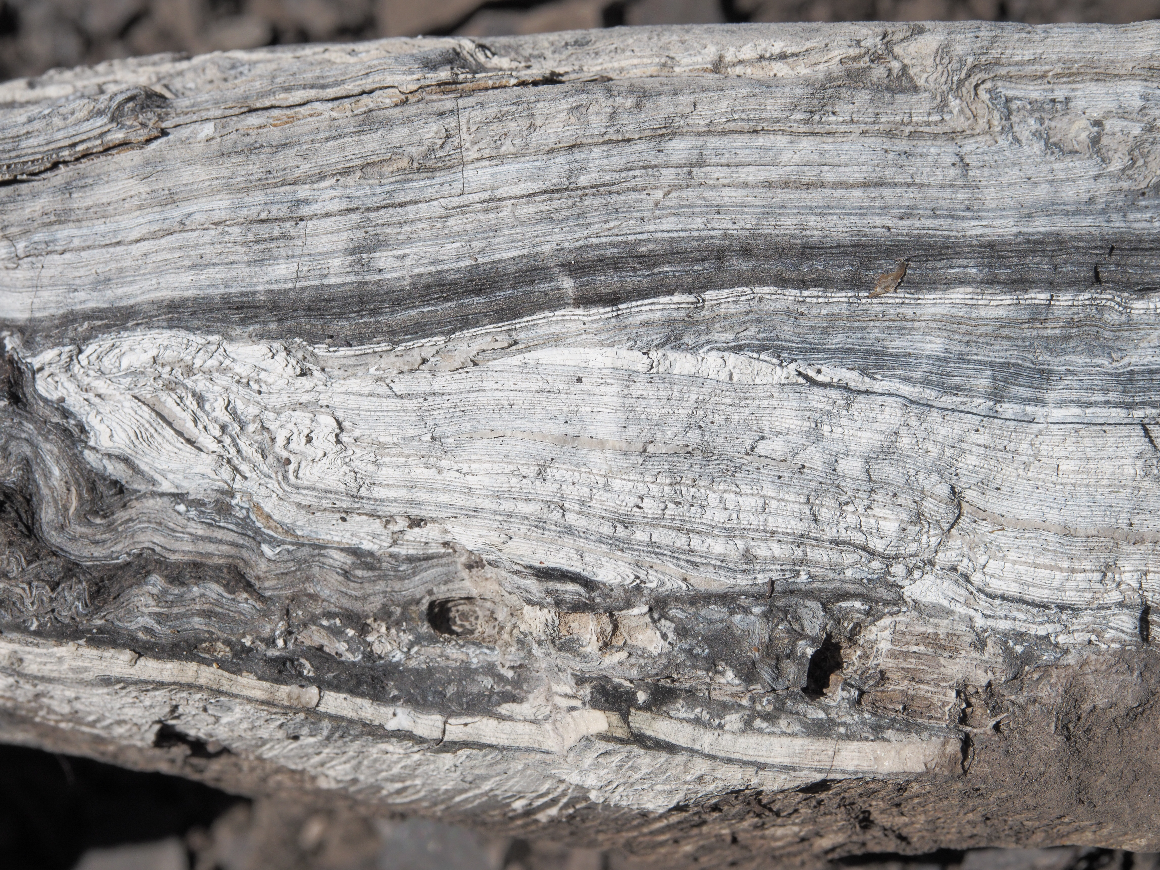 Stone of Seefeld Formation (Picture ca 6/9cm)